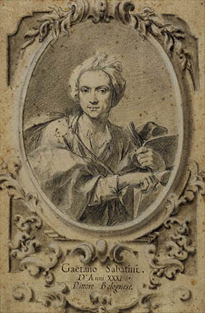 Self-portrait of Gaetano Sabatini, Italian draftsman and painter of the 18th century, about 1734. Black chalk, with some stumping, and white chalk, on buff paper. Getty Museum.